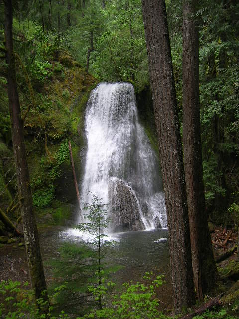 Yakso Falls on the Little River, a tributary of the North Umpqua River, in Douglas County, Oregon, United States